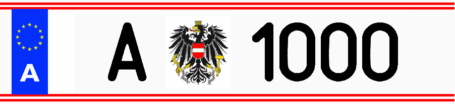 License plate of the president of Austria